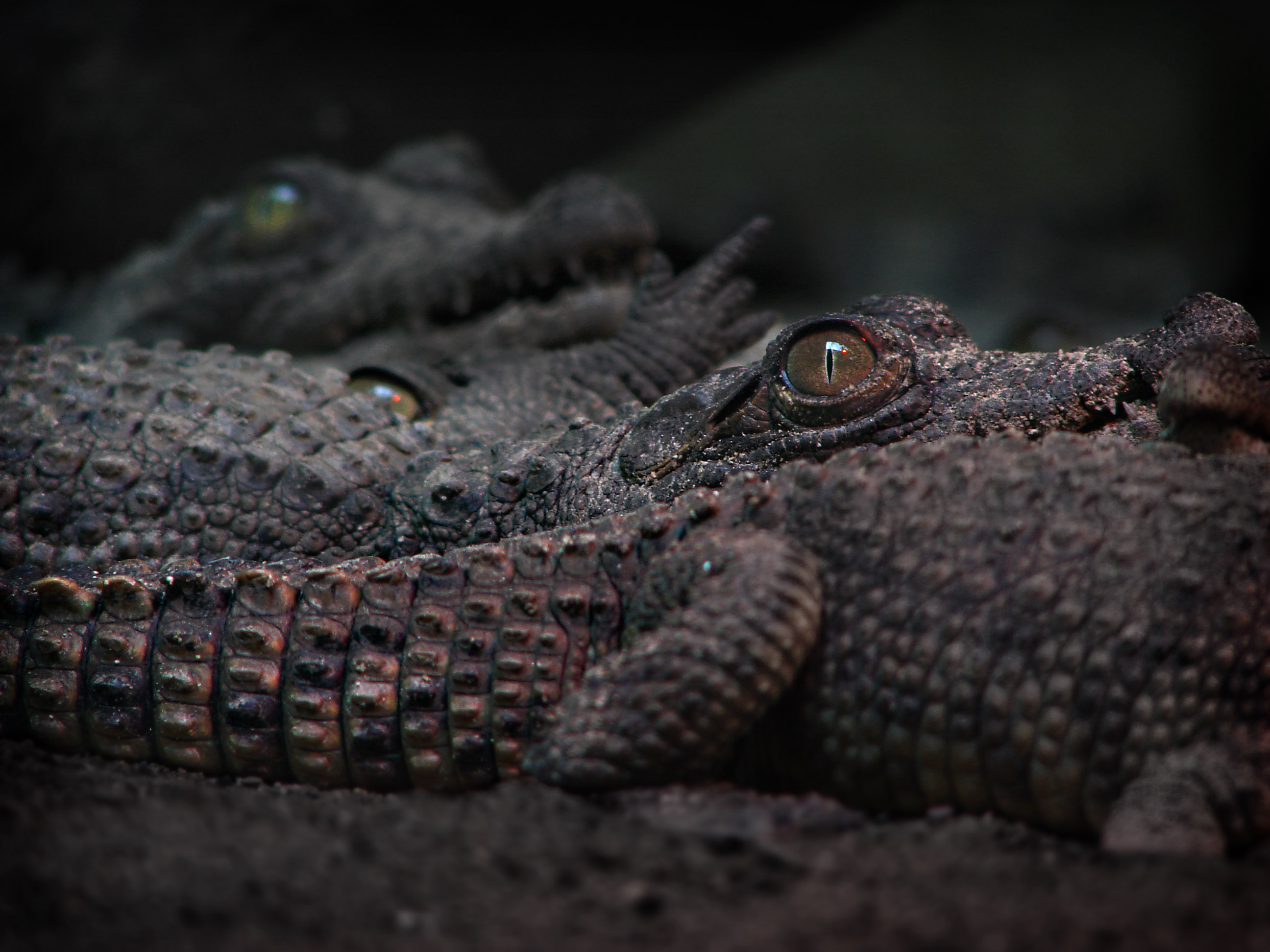 Baby Crocodiles